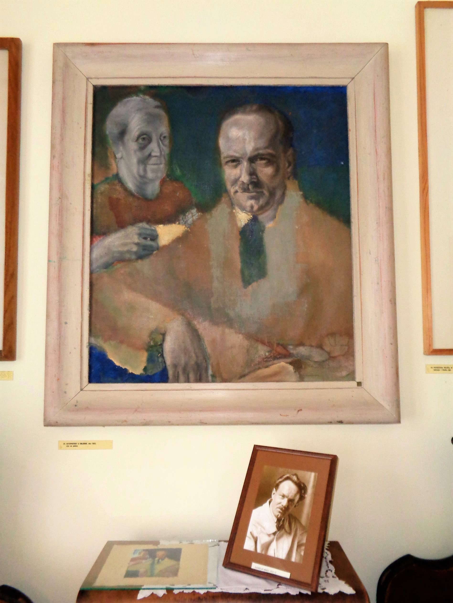 Medjimurje County Museum in Čakovec, Croatia - Memorial collection of the painter Ladislav Kralj-Međimurec - painter's self-portrait in his bedroom